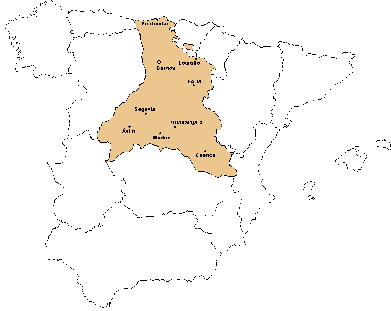 Map of Castile by Anselmo Carretero